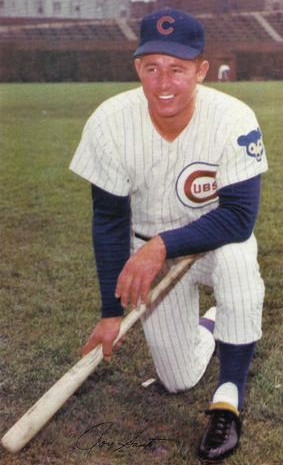 Professional baseball player Ron Santo